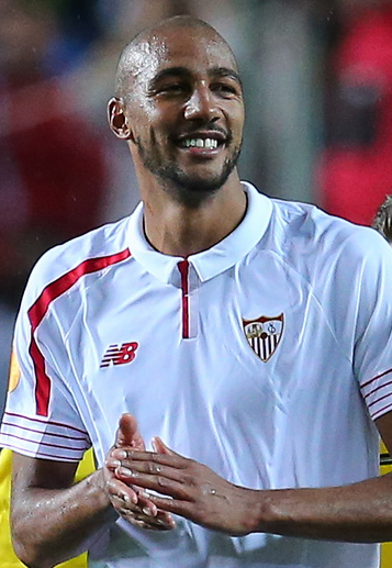 French footballer Steven N'zonzi. UEFA Europa League 2015/16. Semi-finals. Return leg. May 5, 2016. Spain. Seville. Ramon Sanchez Pizjuan. 17 oC. Att: 41,269.